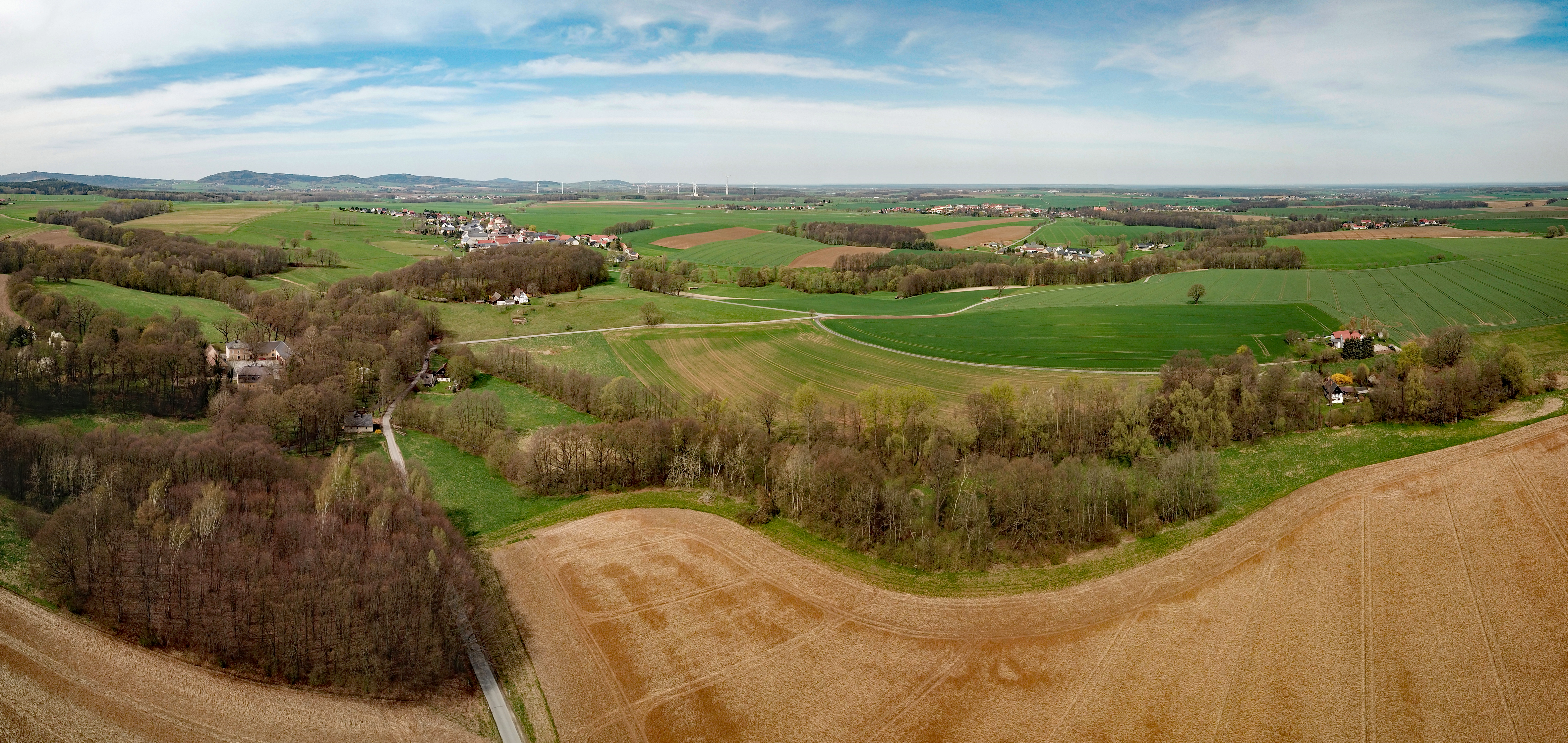 Neustädtel (Panschwitz-Kuckau, Saxony, Germany) Hornjoserbsce: Powětrowy wobraz Noweho Městačka pola Wotrowa (prědku nalěwo)